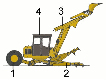 Schematics of a walking excavator.(1) leg with tire (2): leg with solid foot (3):excavator (4):body and cab